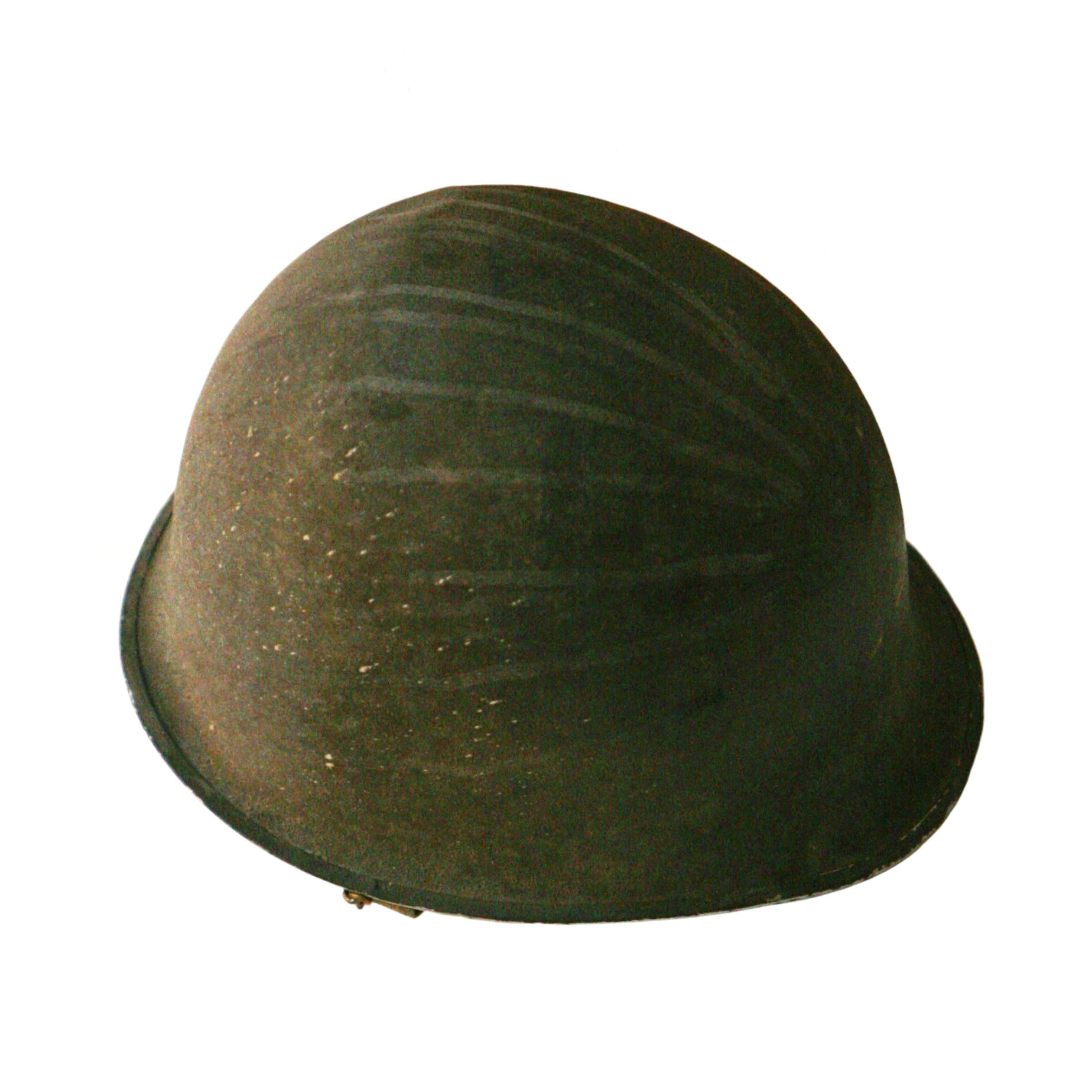 Modèle 1951 helmet of the French Army. This particular hemlet is on display as an ex-voto at Notre-Dame de la Garde in Marseille. The back of the helmet is slightly bent, suggesting that it was hit by a schrapnel and saved its owners.